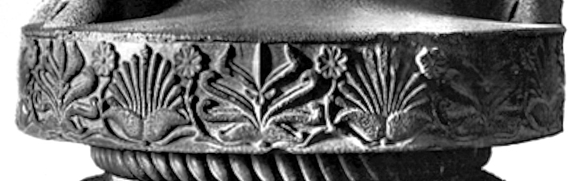 Rampurava capital abacus detail